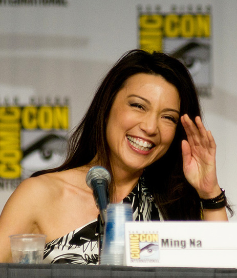 Ming Na at the Stargate Universe panel at San Diego Comic-Con International on July 23, 2010.